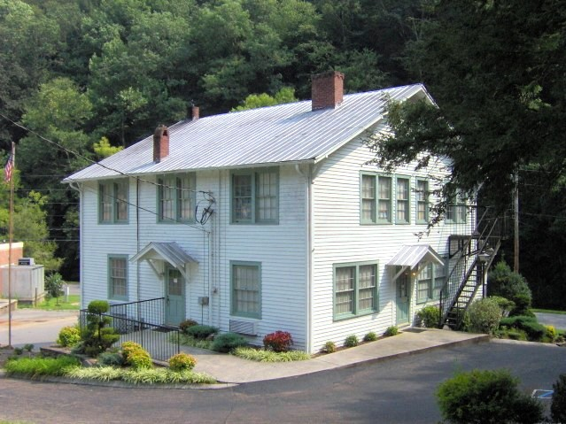 Pittman Center City Hall, in Sevier County, Tennessee. Constructed in the 1920s, it was used as the Home Economics building by the Pittman School. The Methodist Episcopal Church, which operated the school, gave the building to Pittman Center in 1976. It is now on the U.S. National Register of Historic Places.